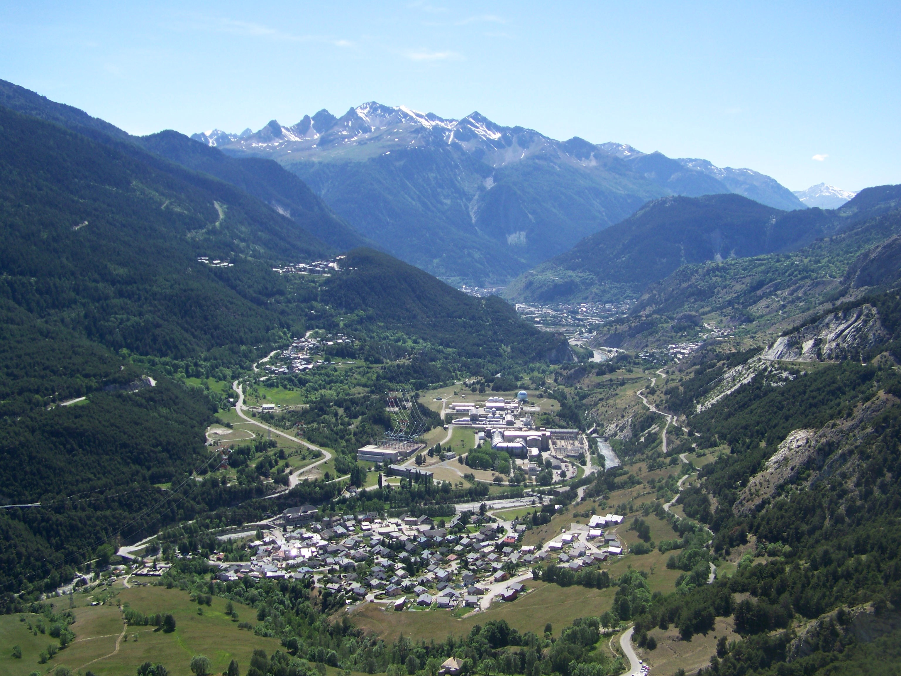 Sight of the Haute-Maurienne valley and commune of Avrieux in Savoie, France.